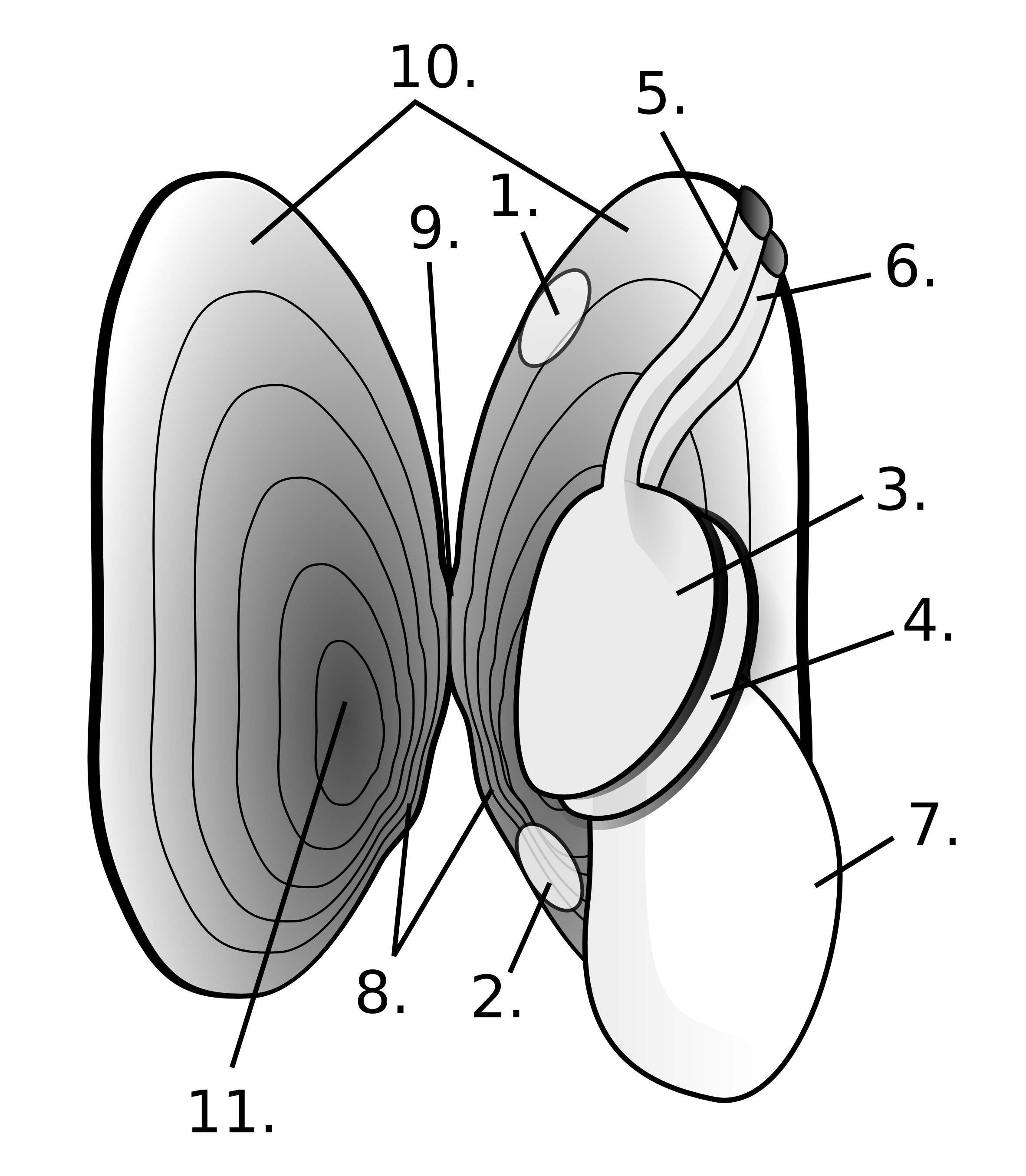 Description of the anatomy of the freshwater pearl mussel: posterior adductor anterior adductor outer gill demibranch inner gill demibranch excurrent siphon incurrent siphon foot teeth hinge mantle umbo